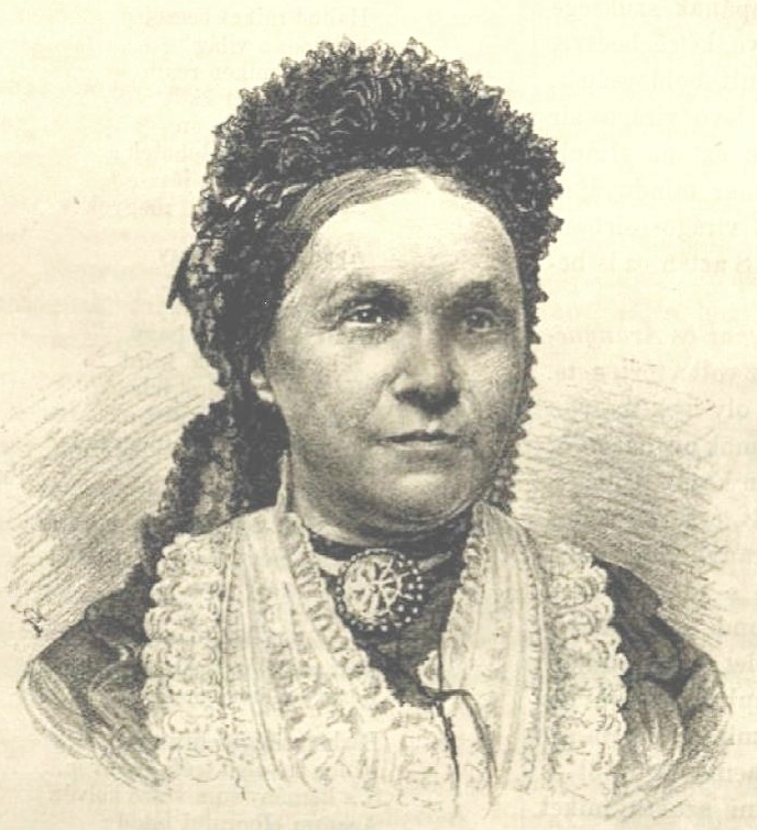 Julianna Ercsey